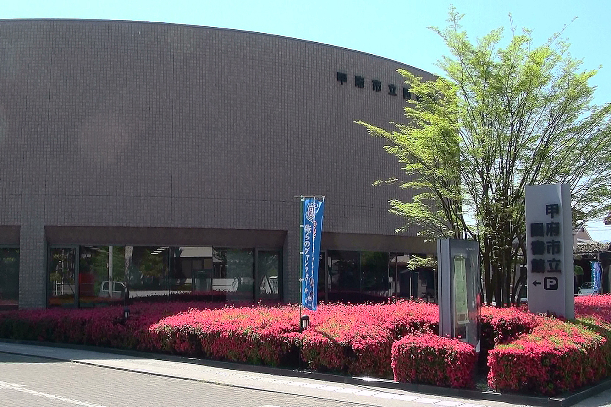 Kofu City Public Library